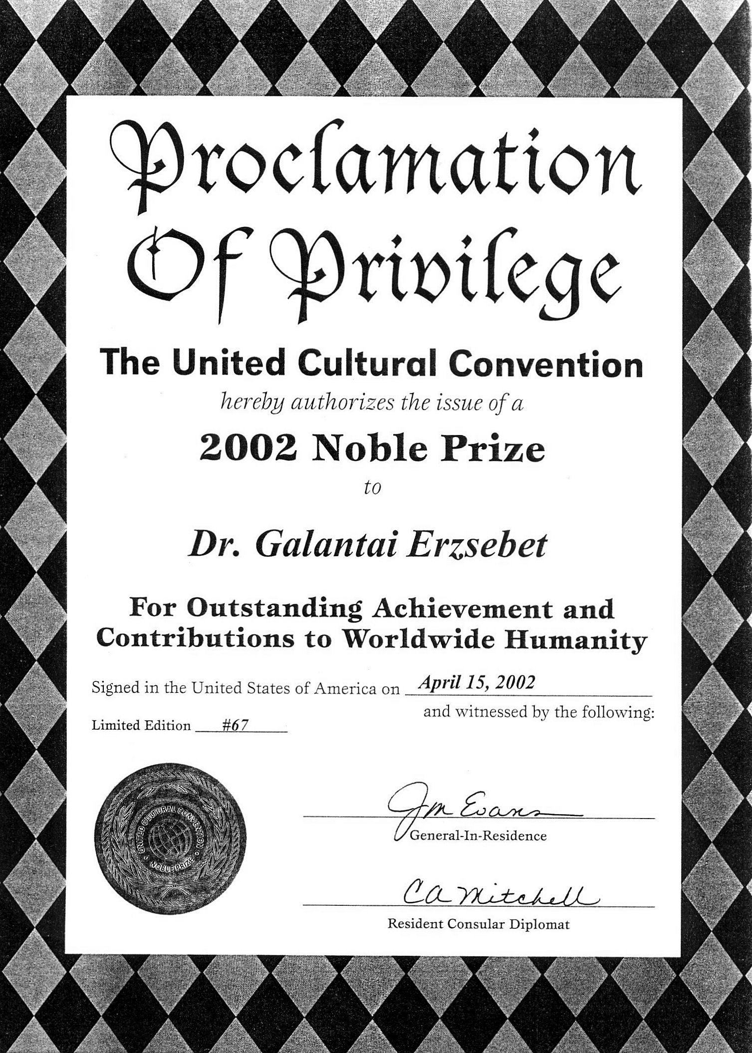 Proclamation Of Privilege for Galántai Erzsébet